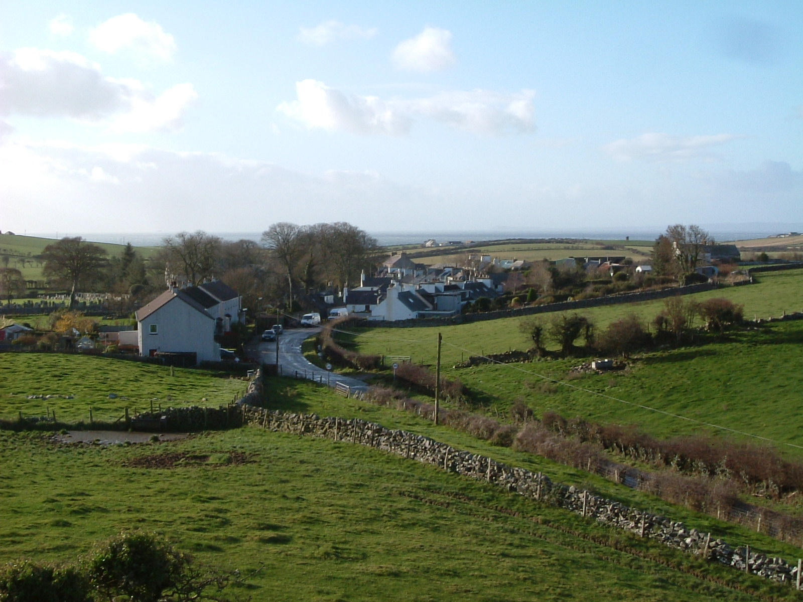 Mochrum Village seen from the top of the nearby Motte. 12th November 2004 Photographer - A.M.Hurrell Camera - Fuji FinePix F401 Modified - Trimmed, file size and definition changed using Adobe Photoshop 5.0LE